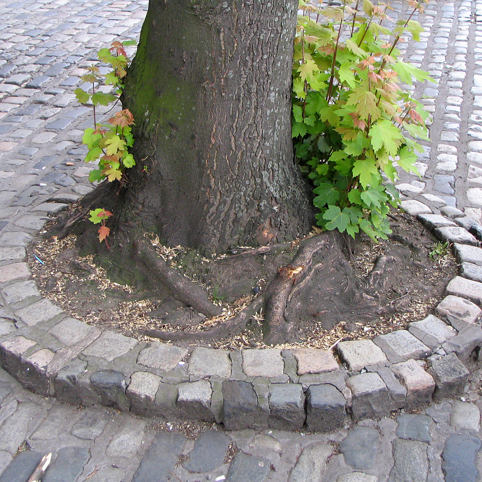 Acer rubrum shoots